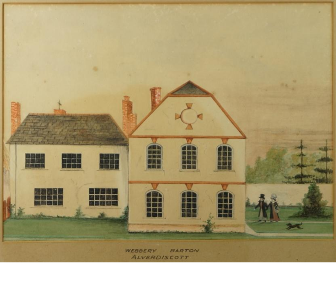 Watercolour circa 1820 of Webbery Barton in the parish of Alverdiscott, Devon. Catalogued as "Rare English Early 19th Century Naive School Painting Couple Dog House Circa 1820 Folk Art" (Trinity Antiques, St Patrick's Church, Spring Street, Crick, Gloucestershire) Dimensions: 19 2/8” (49 cm) by 15 3/8” (39 cm). Aperture 10.75” (27 cm) by 7 5/8” (19.5 cm).